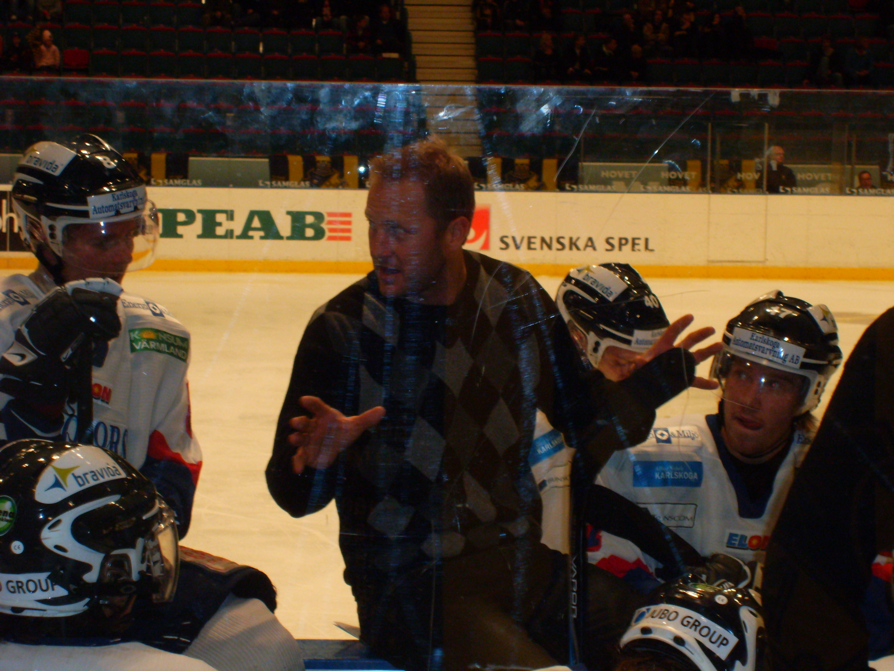 Magnus Arvedson, former ice hockey player and coach.